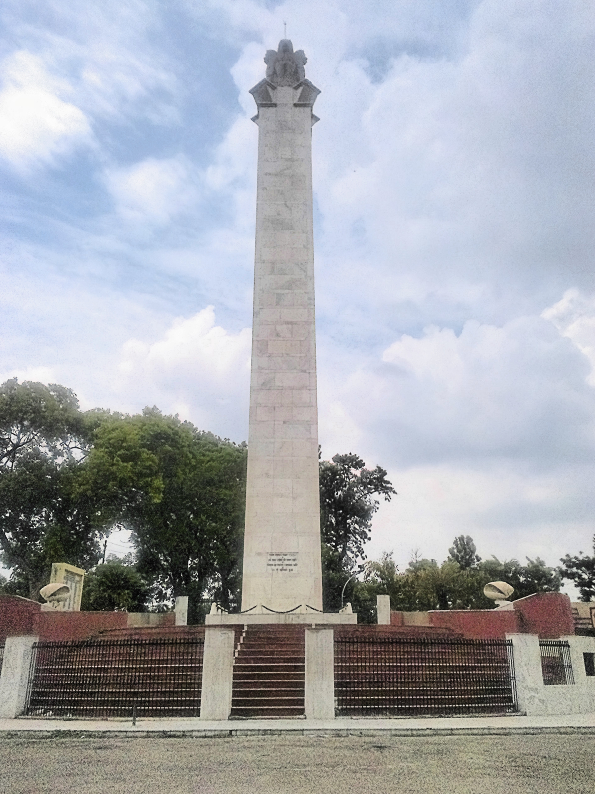 This is the central column at Shaheed Smarak (Martyr's Memorial) in Meerut. The memorial commemorates the 1857 War of Independence. At the top of the column is the Lion Capital of Ashoka, the National Emblem of India.